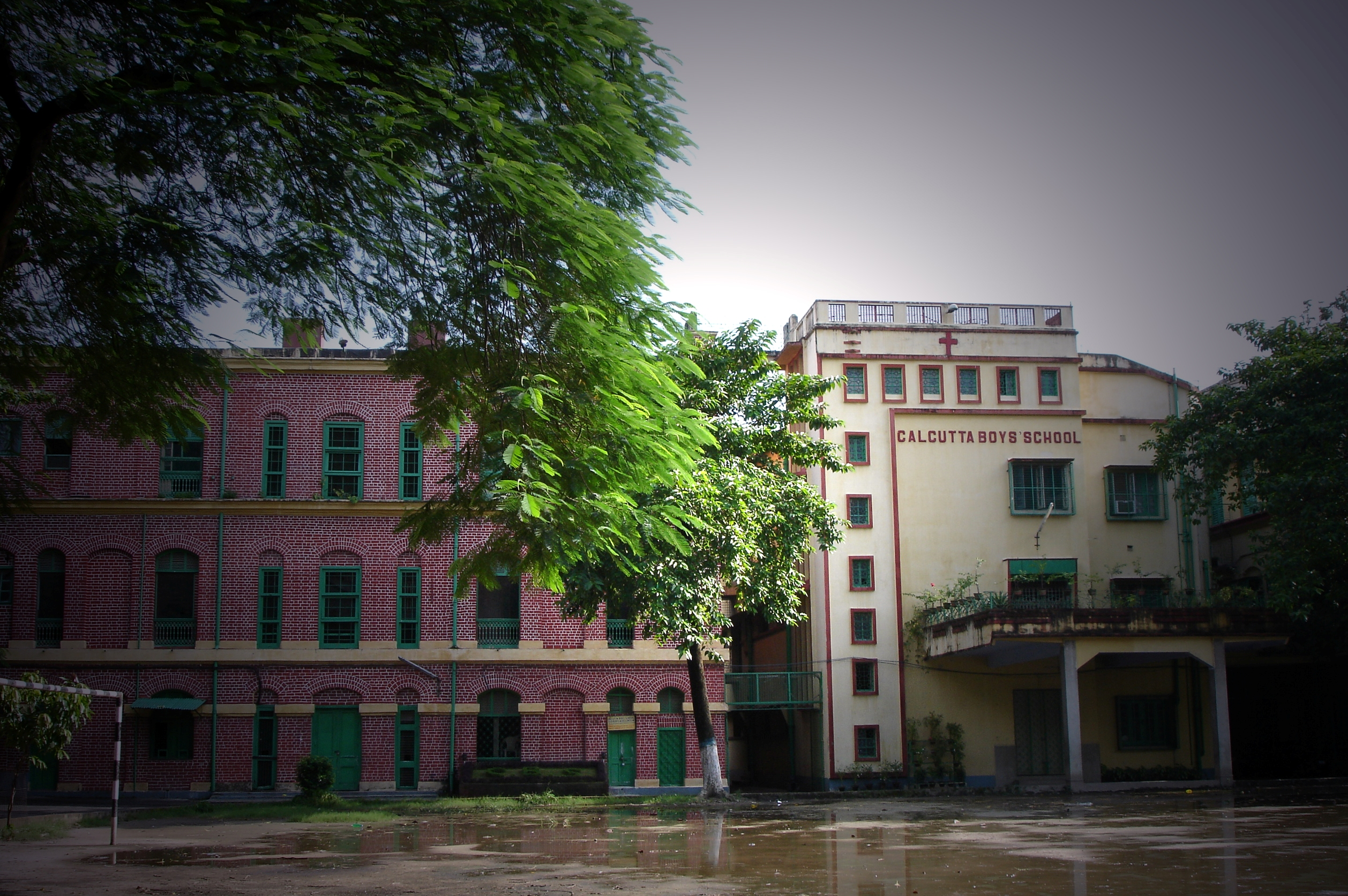 Renfrew House & Fritchley Building of Calcutta Boys' School